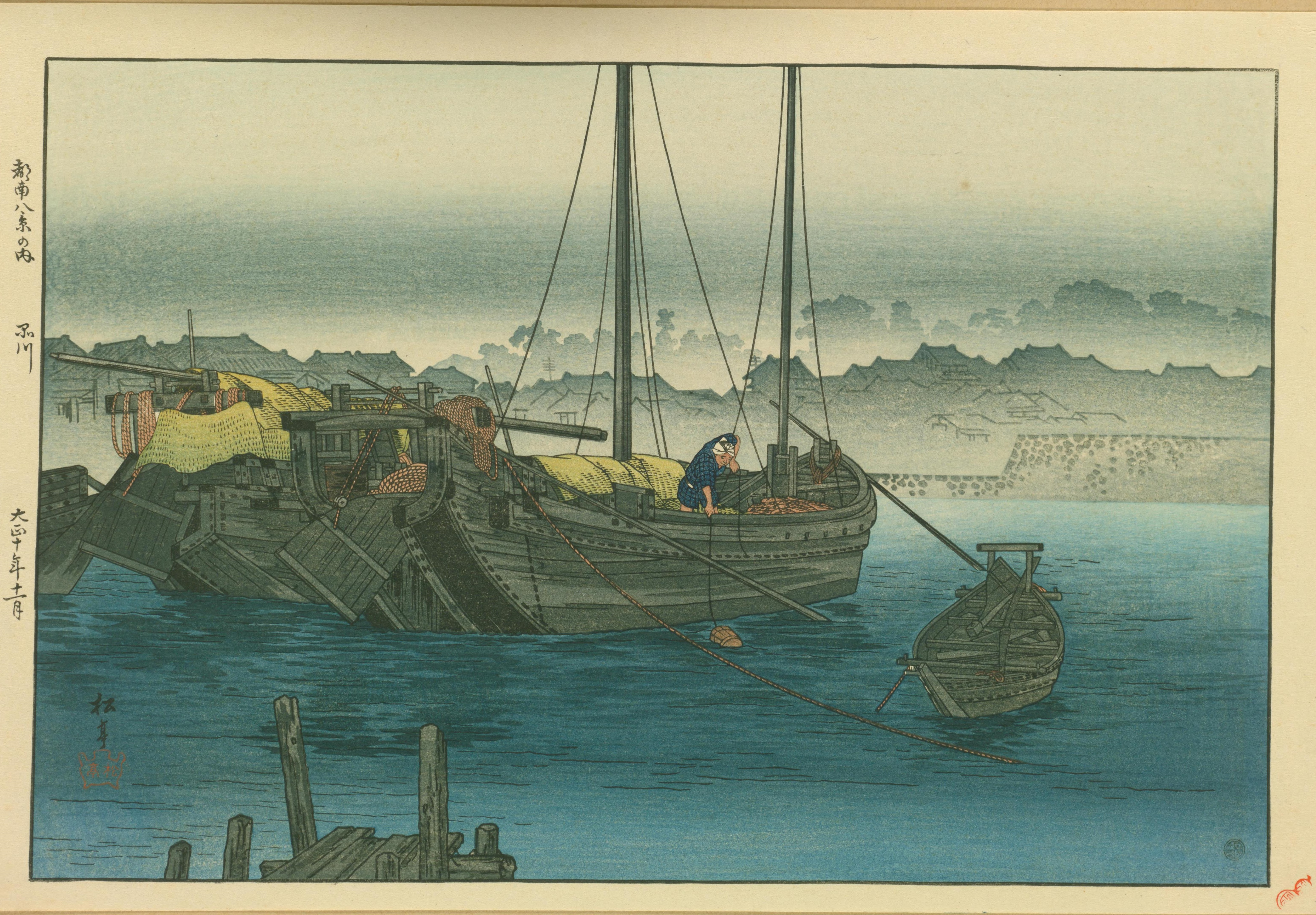 Shinagawa, from the series "8 views of the South of the Capital" (Tonan hakkei no uchi), woodblock print